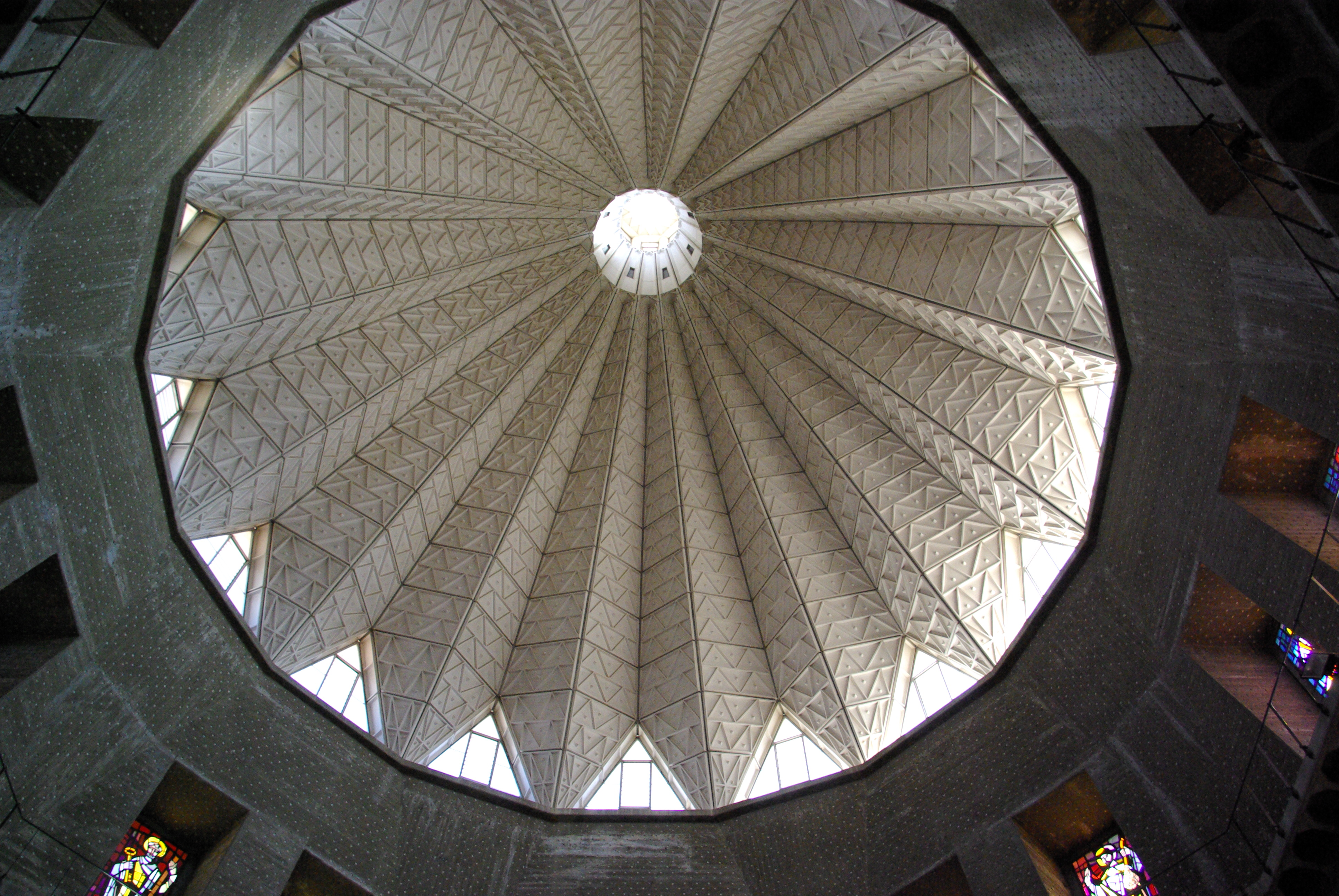 Church of the Annunciation, Nazareth, Israel